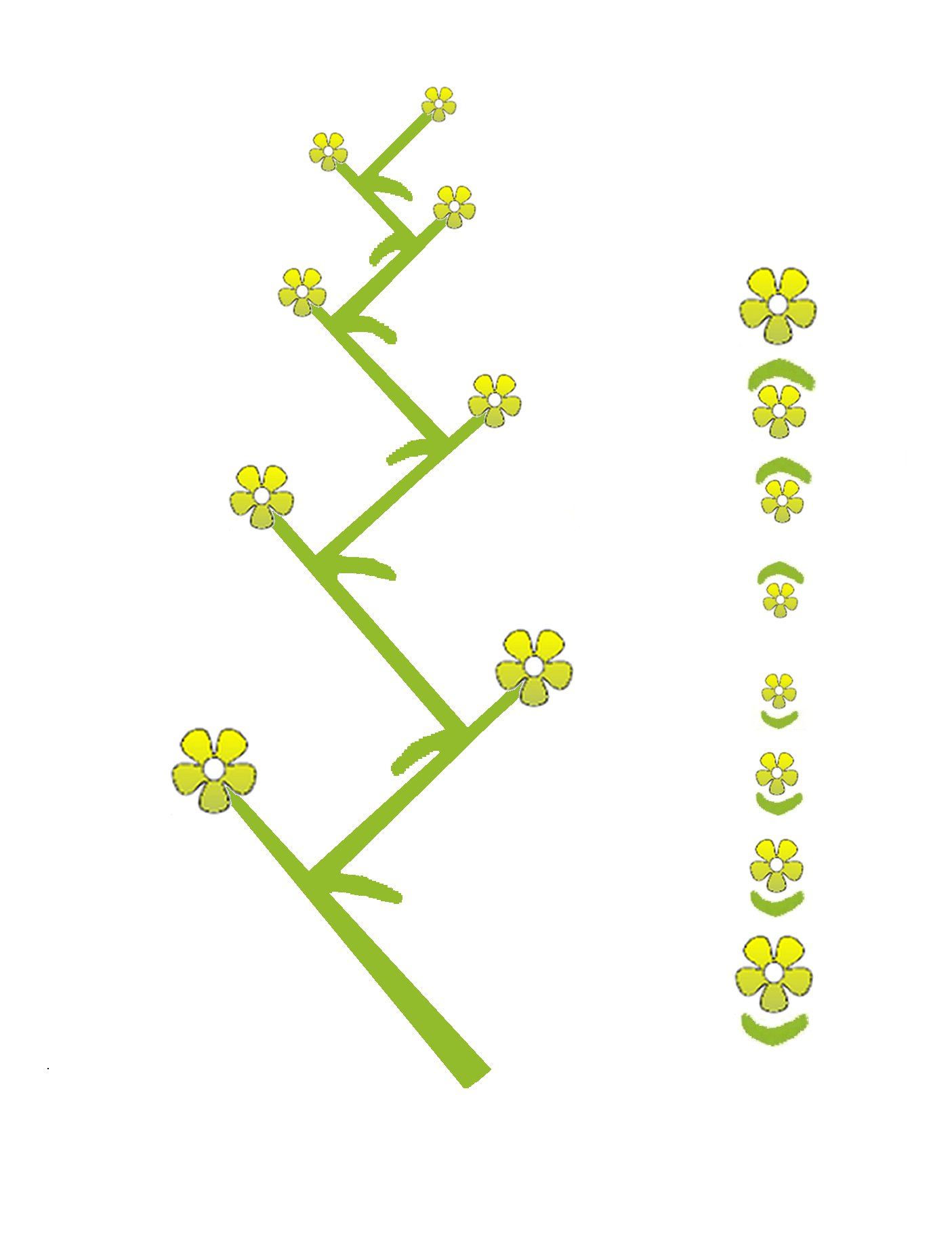 rhipidium